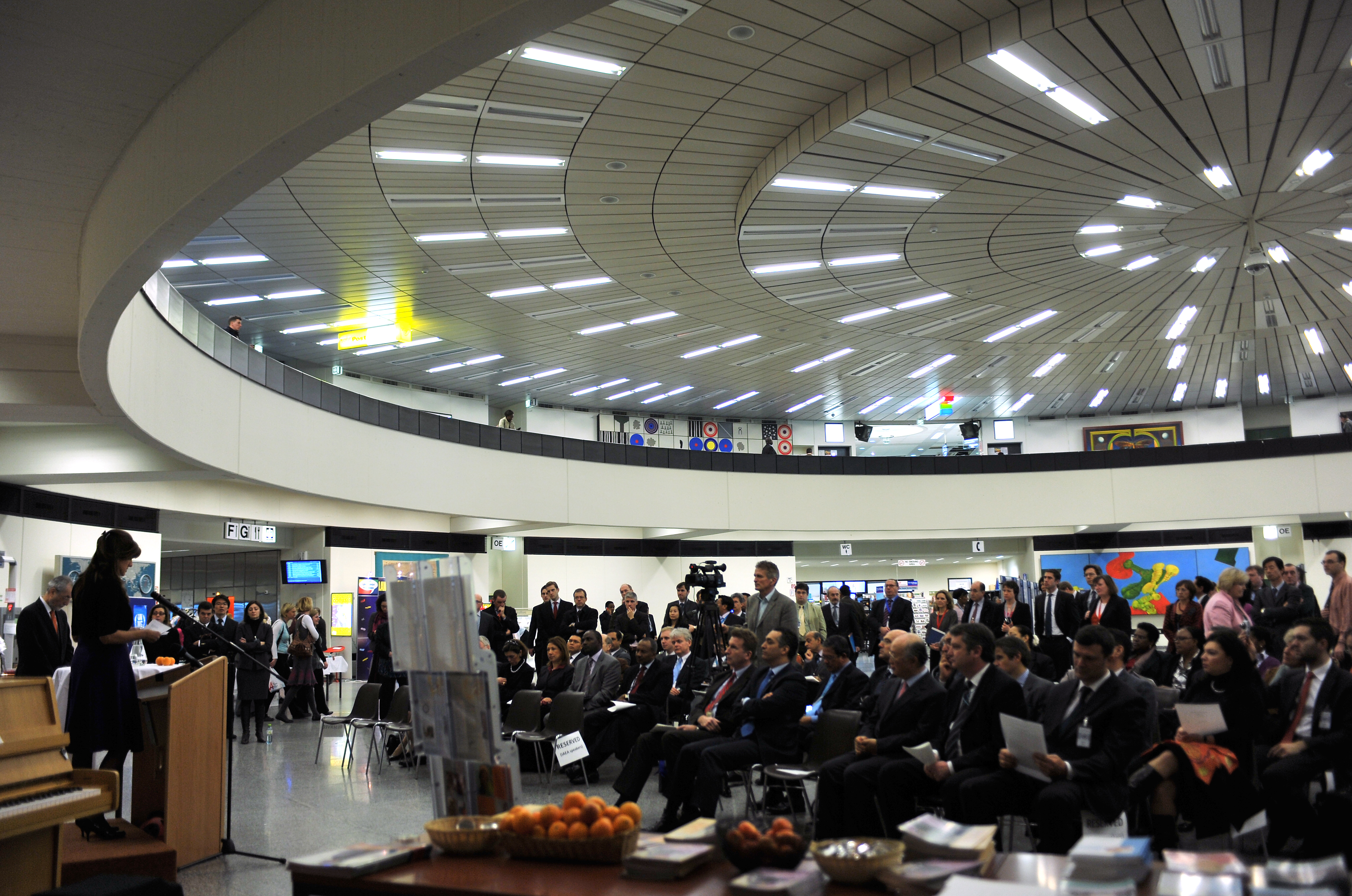 World Cancer Day at the Vienna International Centre hosted by IAEA’s Programme of Action for Cancer Therapy (PACT) and the VIC Medical Service. HRH Princess Dina Mired of Jordan, Director General of the King Hussein Cancer Foundation Copyright: IAEA Imagebank Photo Credit: Dean Calma/IAEA